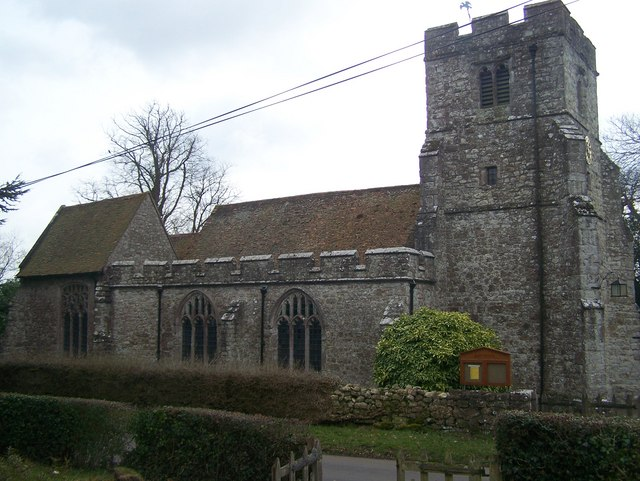 East Sutton Church (2) On Church Lane, seen from small war memorial and graveyard on northside of the road.